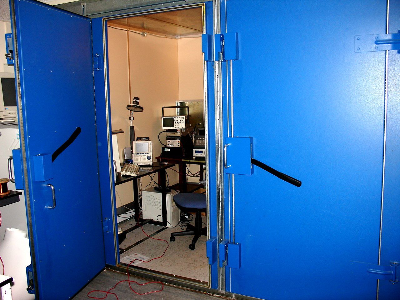 A room shielded from electromagnetic field (higher frequencies) in Wolfson Centre for Magnetics.